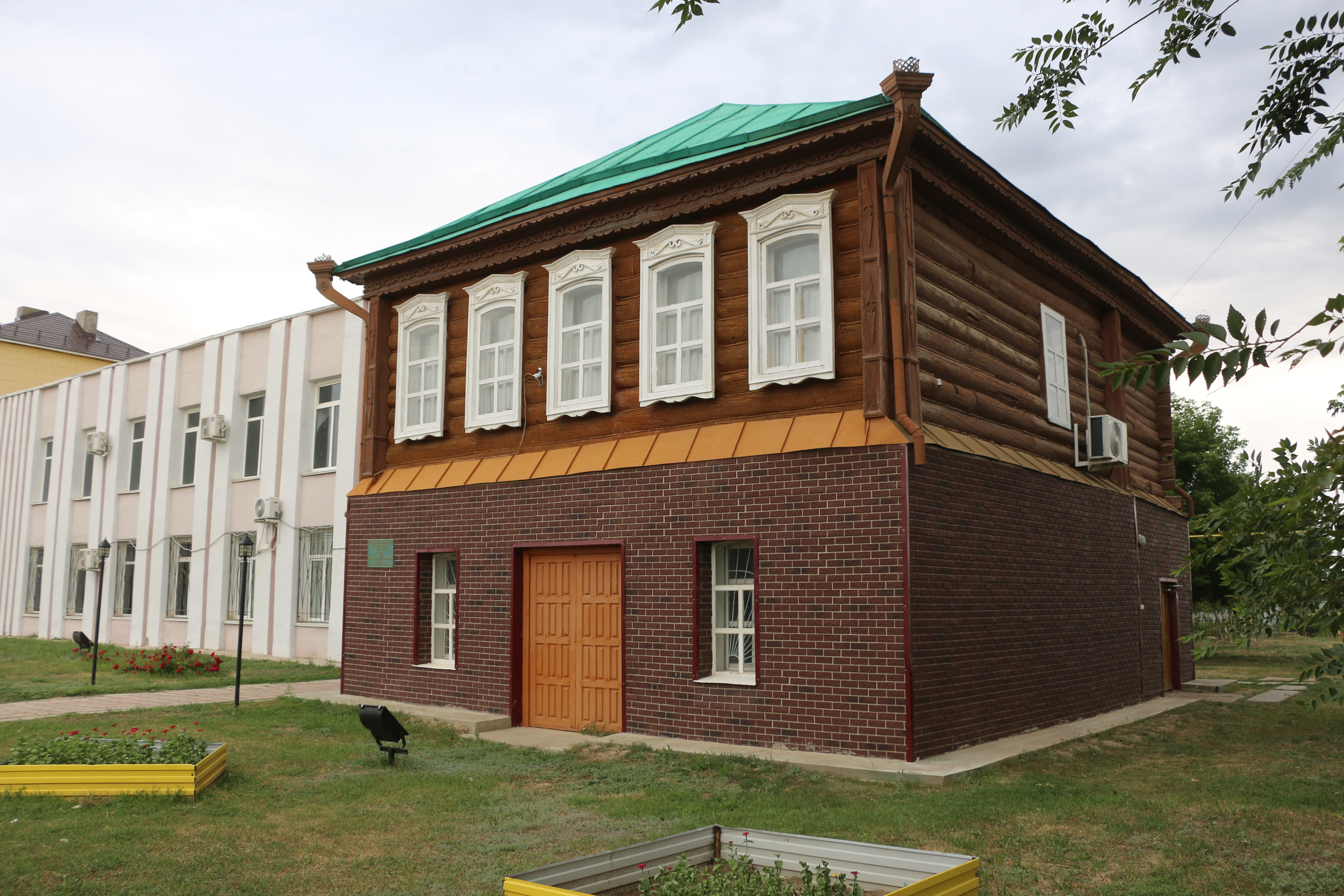 Chapaev Museum in Chapaev village, West Kazakhstan